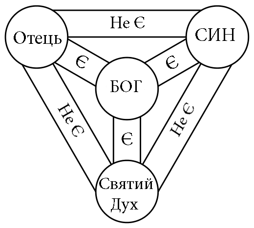 Trinity-ukraine